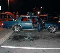 A side view of the 1990 Chevrolet Caprice driven by the D.C. snipers in October 2002.